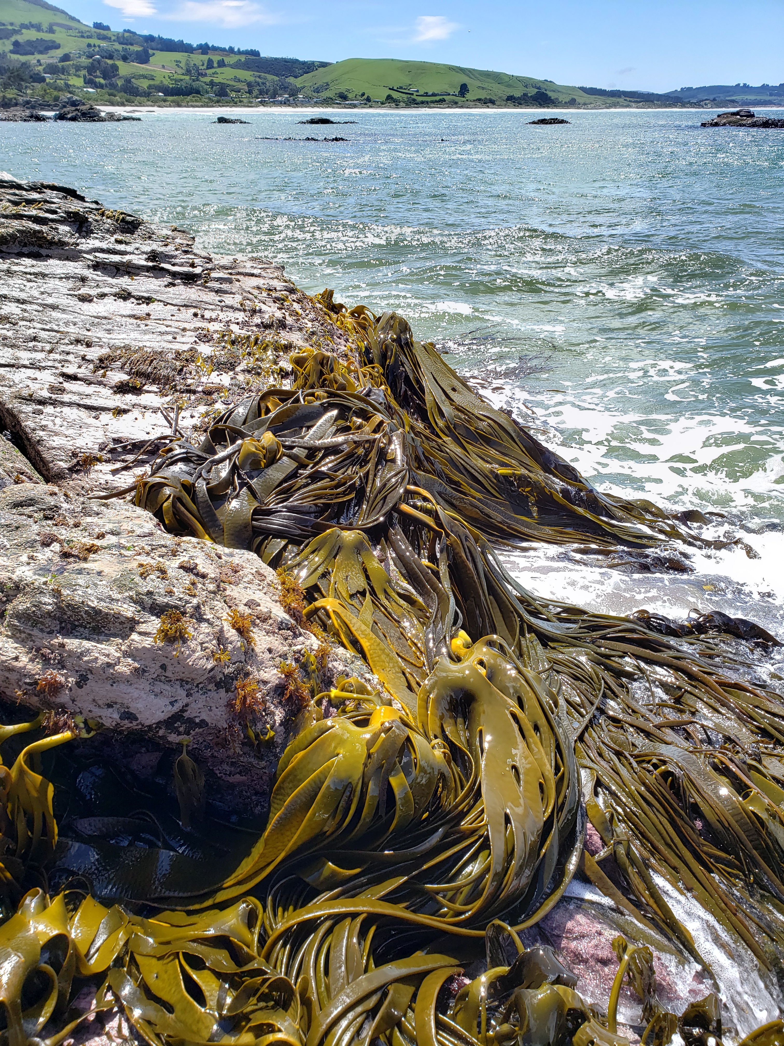 Durvillaea poha and Durvillaea antarctica bull kelp at Brighton Beach, Dunedin in New Zealand